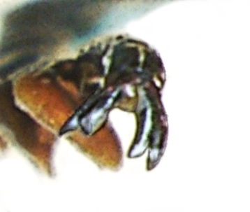 Claw of Coraebus florentinus